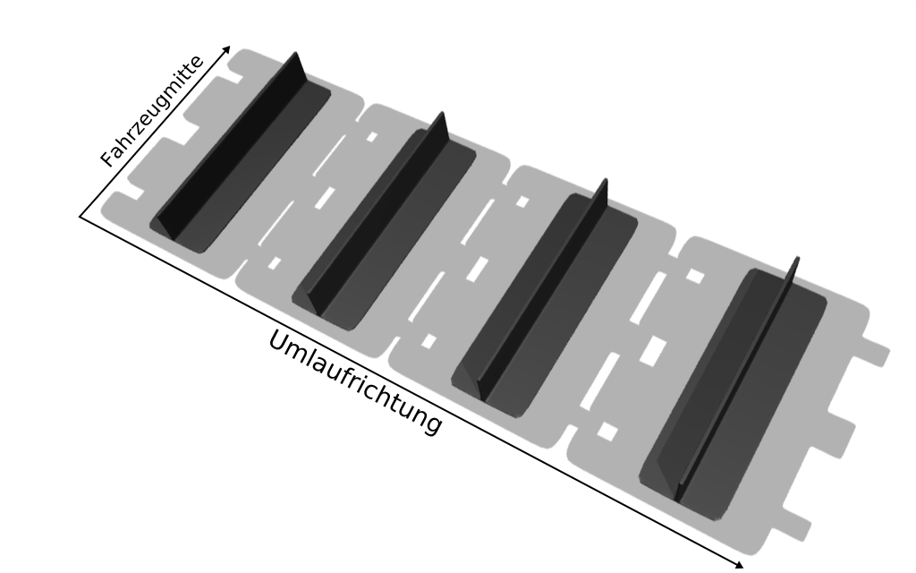 Schematische Anordnung der Paddelbleche von Donald Roeblings Alligator I Schematic setup of the paddle cleats of Donald Roebling's Alligator I. The labels are: "Umlaufrichtung"="Rotating direction" and "Fahrzeugmitte" = "Middle of vehicle".